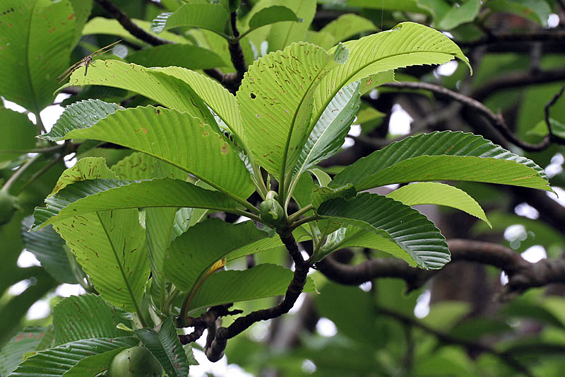 Chalta Dillenia indica in Kolkata, West Bengal, India.